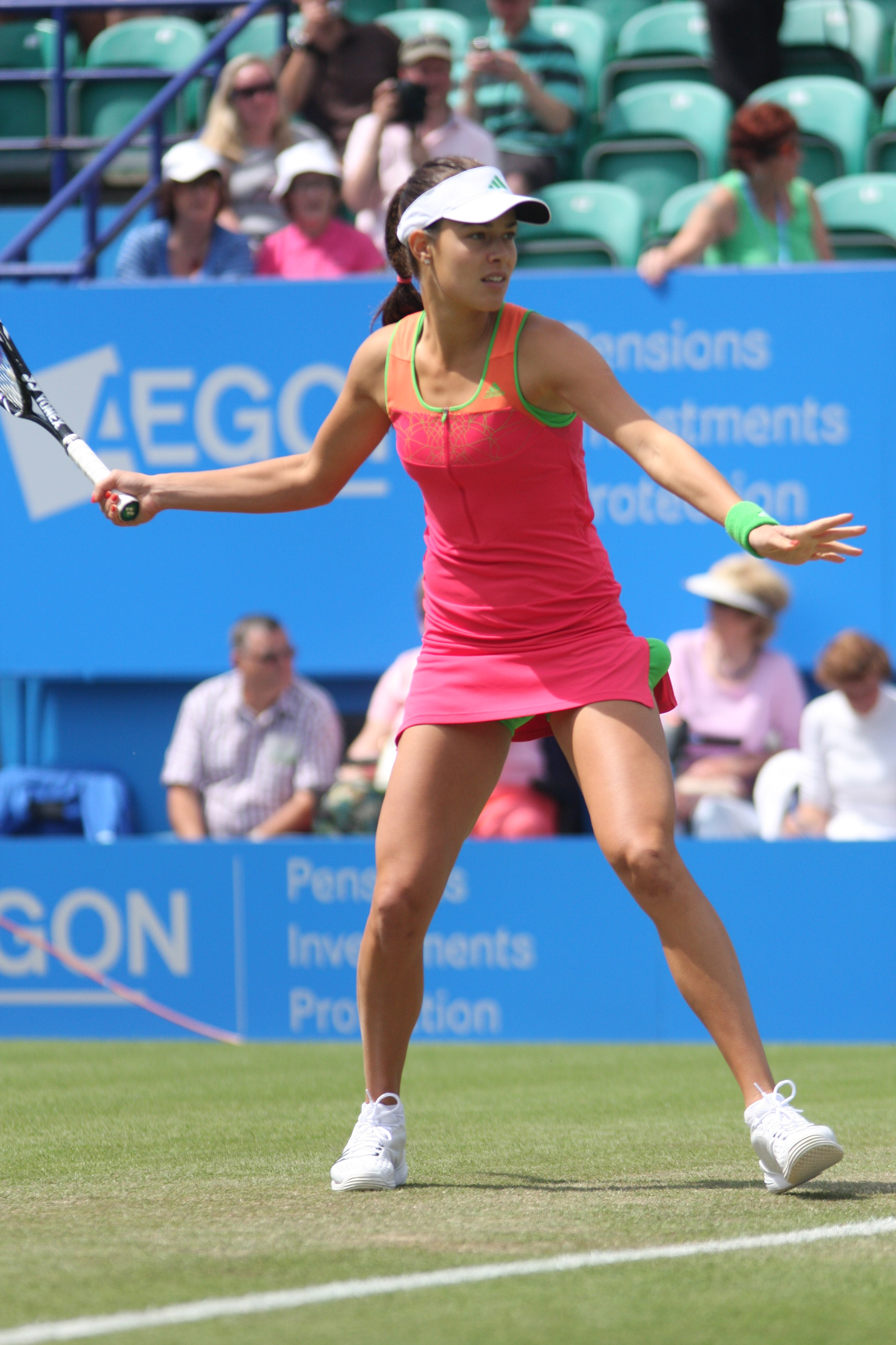 Ivanovic at the 2011 AEGON International